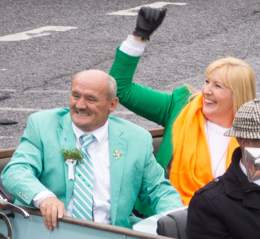 Brendan O'Carroll (left) and Jennifer Gibney (right) being driven in a vintage car in the 2015 Dublin St Patrick's Day Parade